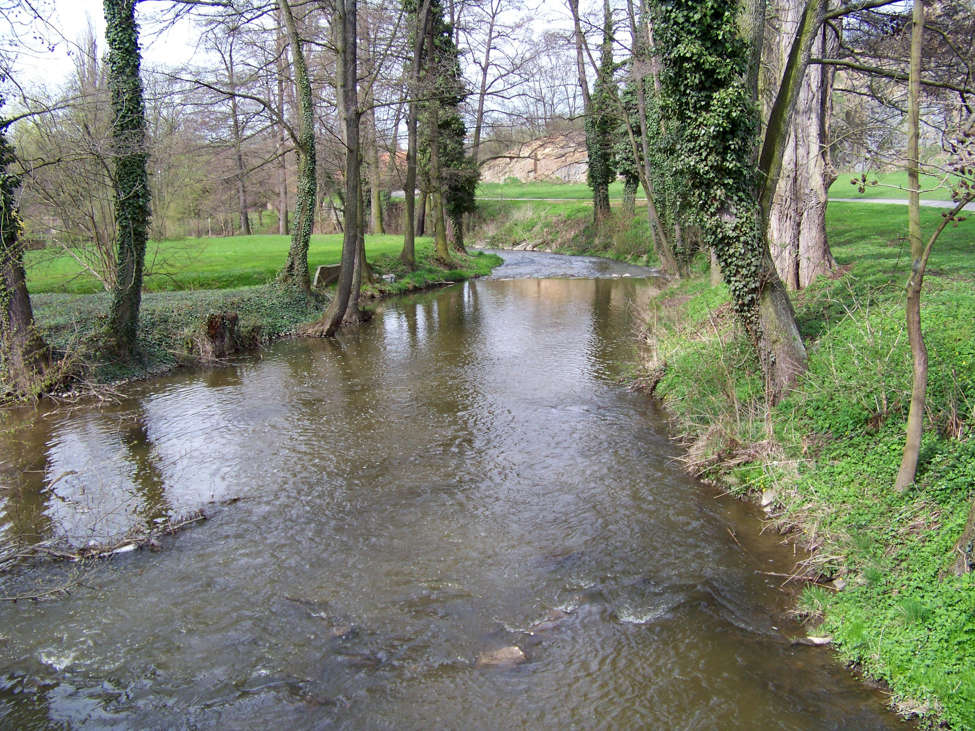 Kouřim, Kolín District, Central Bohemian Region, the Czech Republic. Výrovka River near the quarry.